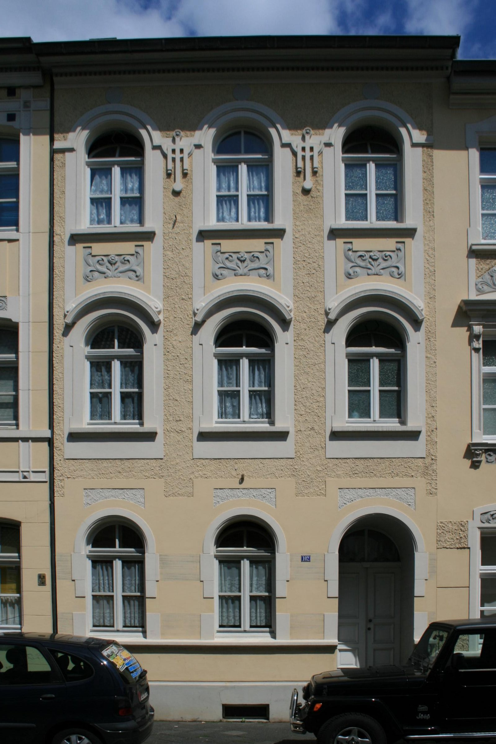 Cultural heritage monument No. W 005 in Mönchengladbach